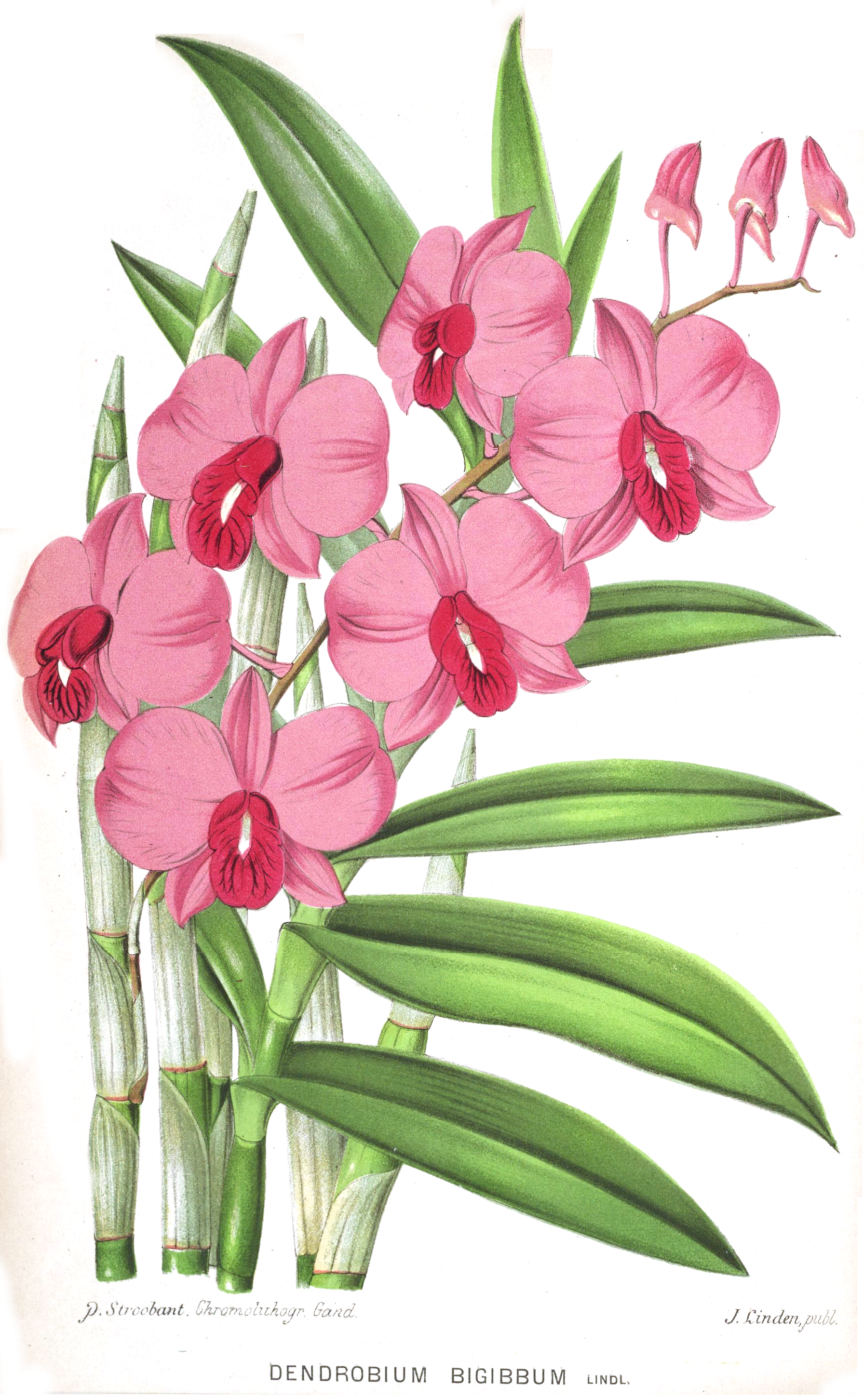 Dendrobium bigibbum (Vapodes phalaenopsis) in a chromolithograph by P. Stroobant, 1883